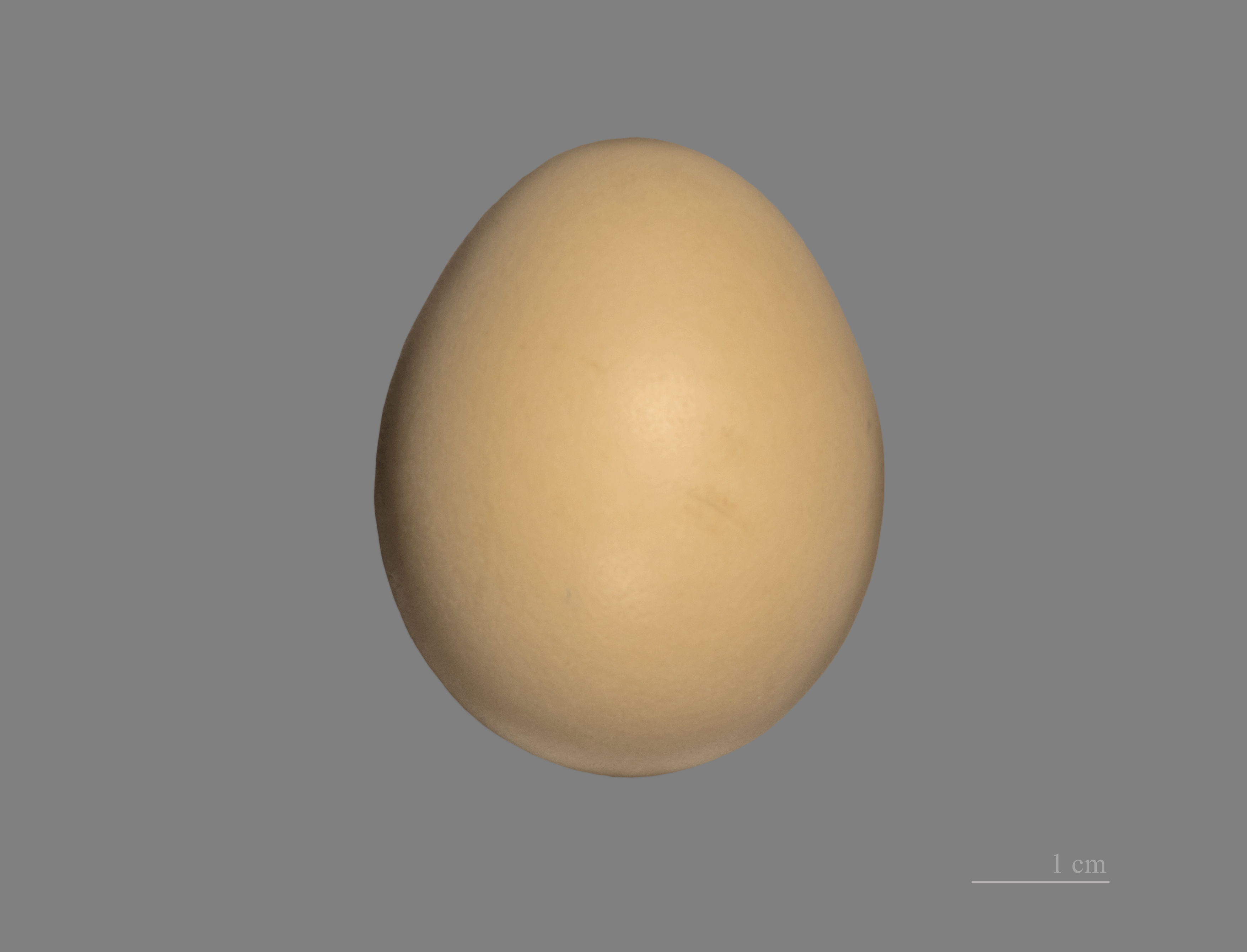 Egg of Edwards's Pheasant - Collection of Jacques Perrin de Brichambaut